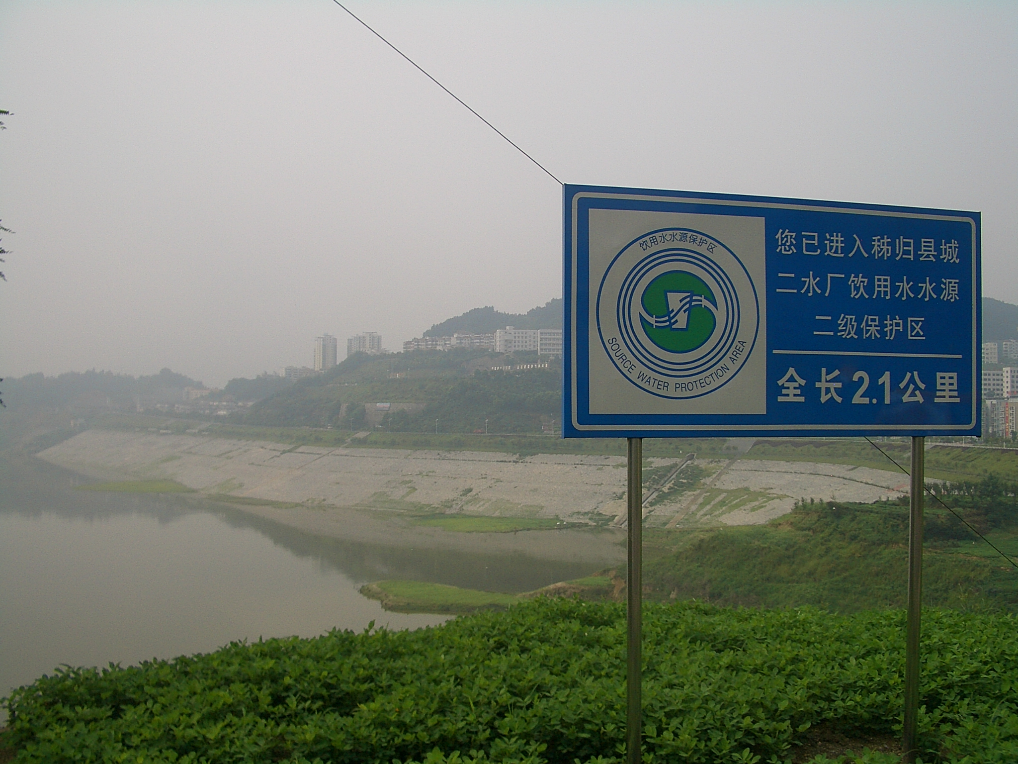 Yangtze shoreline, within water source protection area (with a sign to explain this) west of Maoping Town (the county seat of Zigui County, Hubei, China). The sign says: "You have entered the 2nd-level protection area of the drinking water source for the Second Water Treatment Plant of Zigui County's main urban area. Total length, 2.1 km".